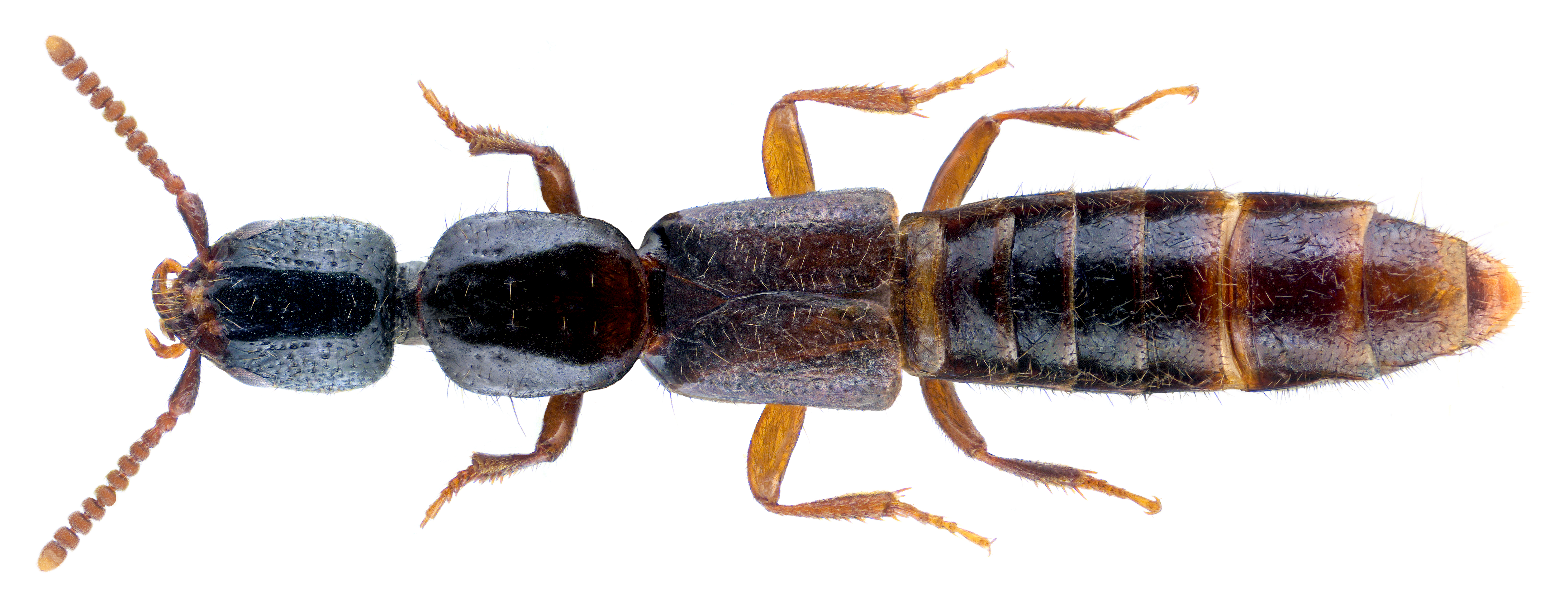 Family: Staphylinidae Size: 6.4 mm (6.0 to 8.5 mm) Origin: Westpalaearctic to Kazakhstan Ecology: Lives in the nests of forest ants Location: Germany, Bavaria, Upper Franconia, Selbitz, Foehrig leg.det. U.Schmidt, 28.IV.2002 Photo: U.Schmidt, 2017